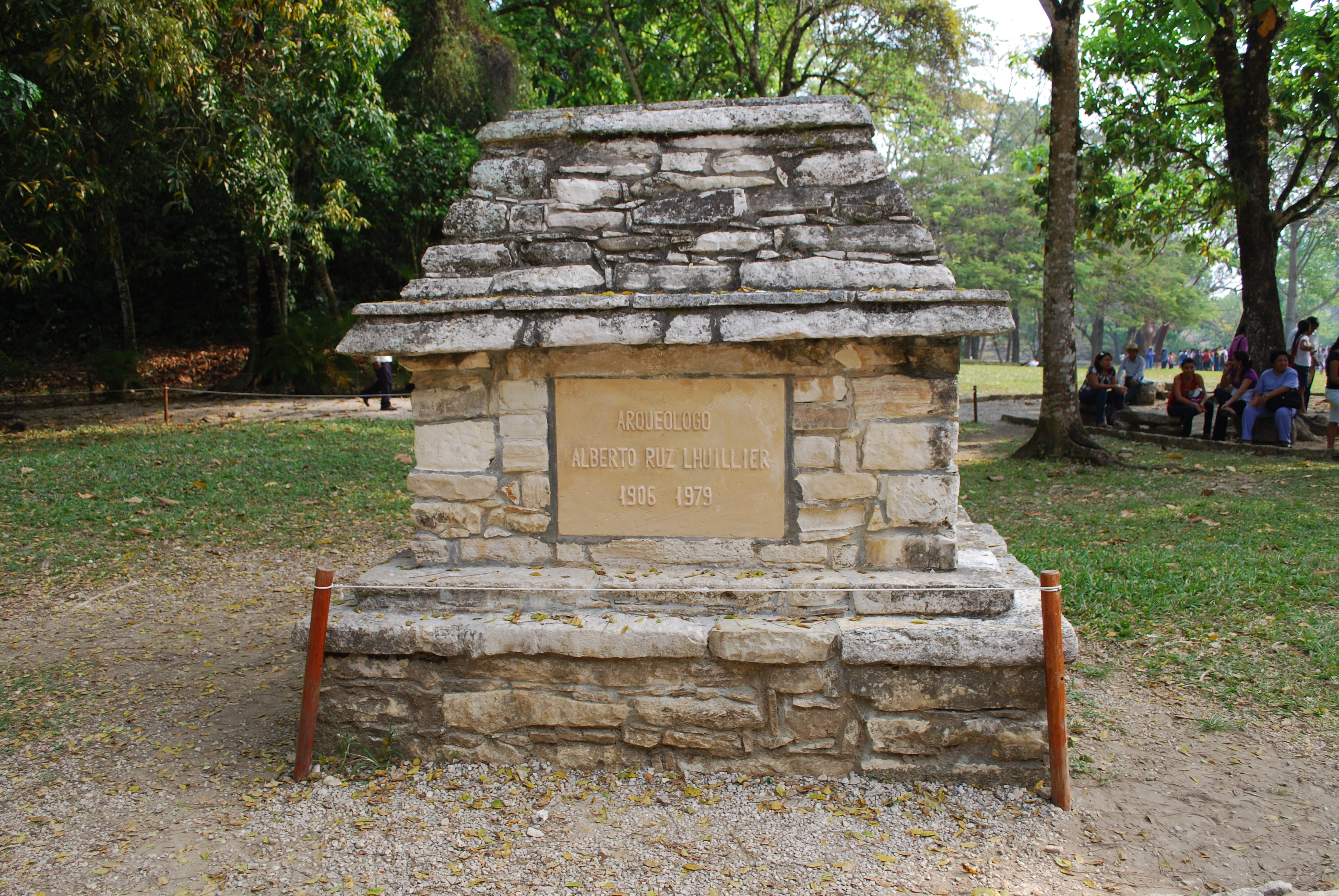 monument to archeologist Albert Ruz LHuillier at Palenque, Chiapas, Mexico